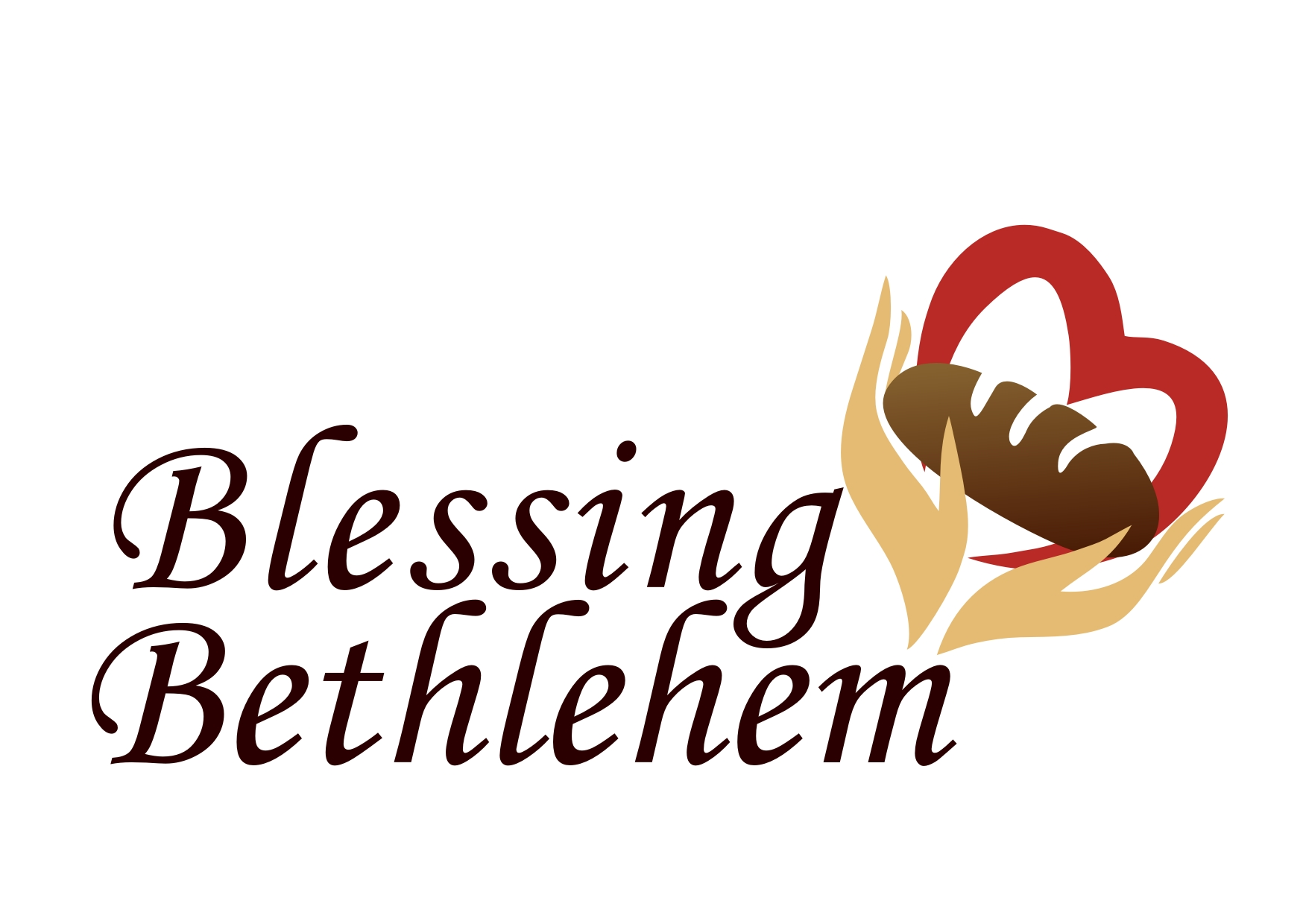 Official logo of the Blessing Bethlehem charity fundraiser